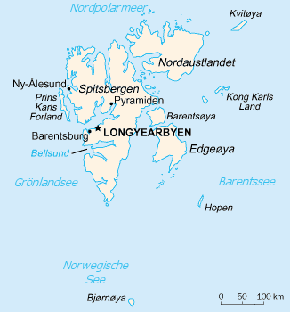 CIA map of Svalbard, translated by Benutzer:Head